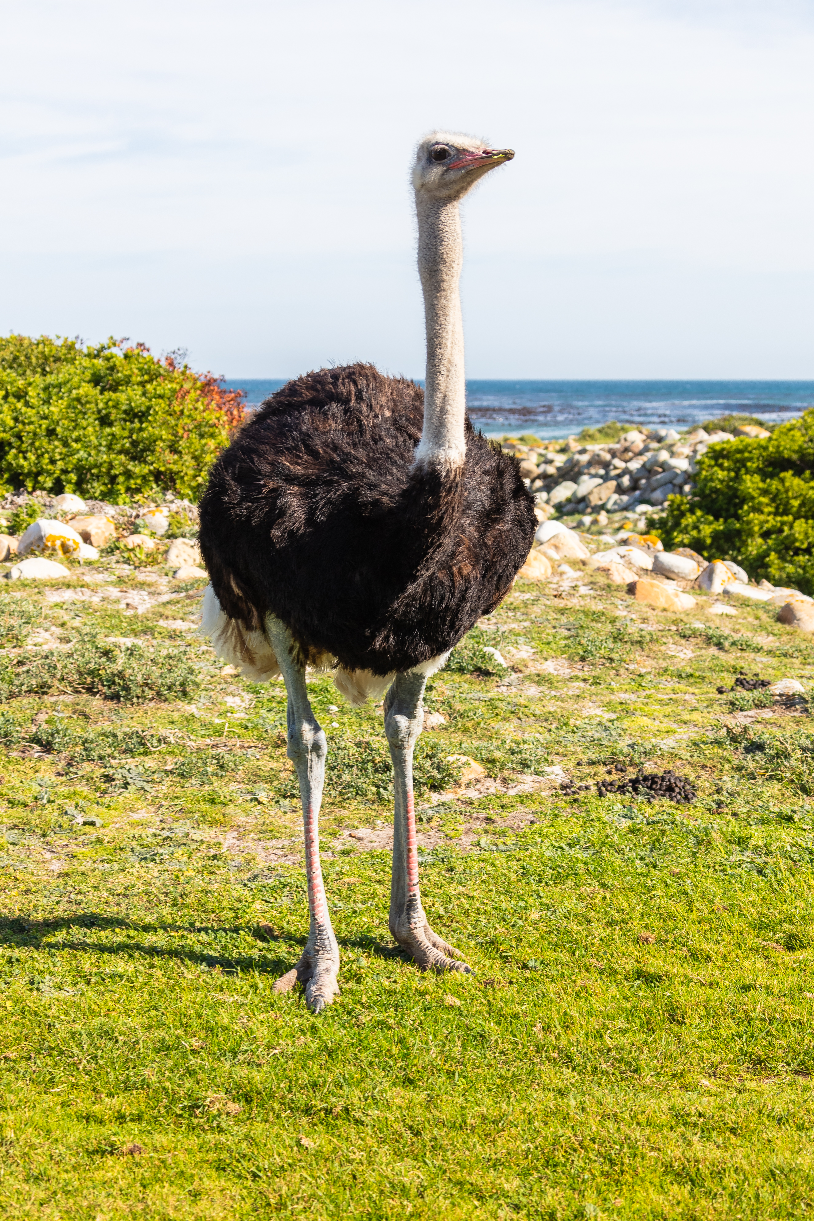 South African ostrich (Struthio camelus australis), Cape of Good Hope, South Africa